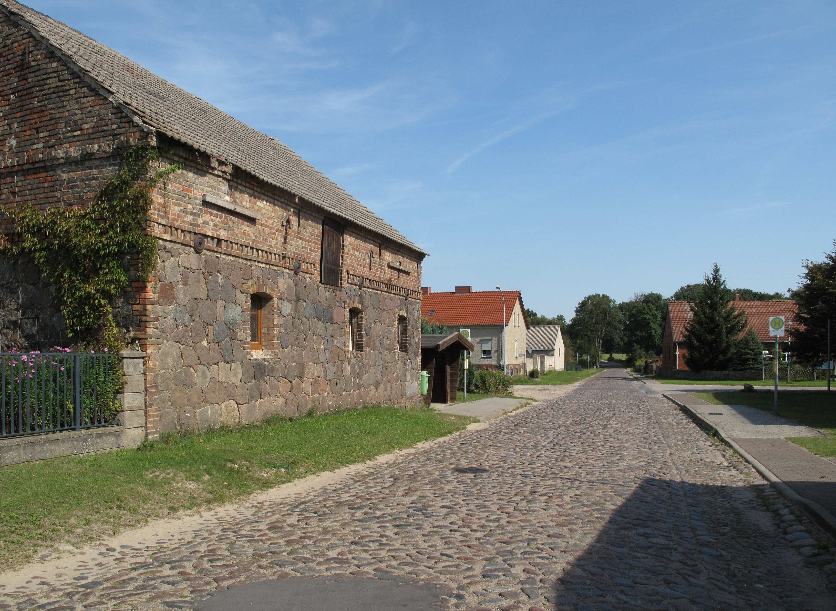 Fieldstone road in Grunow. The village Grunow is a civil parish (Ortsteil) of the municipality Oberbarnim in the District Märkisch-Oderland, Brandenburg, Germany. Grunow was first mentioned in written documents in 1315 and is situated on the Barnim Plateau in the Märkische Schweiz Nature Park. In 2010 the village had about 350 inhabitants (incl. it’s part Ernsthof). Due to its fieldstone-Builsdings and –streets Grunow is a part of the Oberbarnimer Feldsteinroute, a 41,5 kilometers long walking and bike trail in the traces of the building material fieldstone.